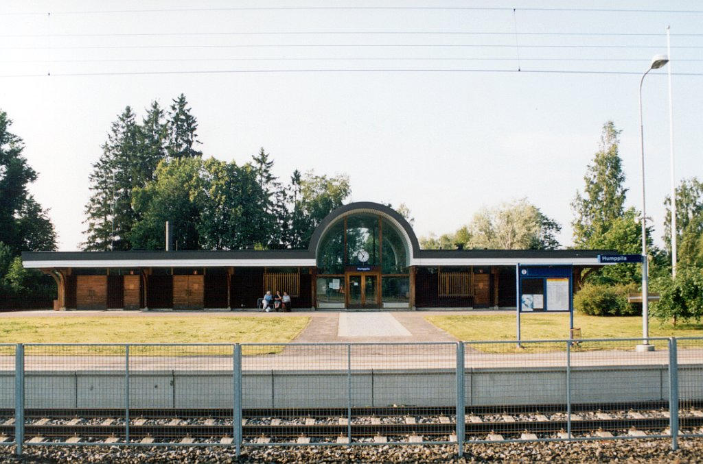 Humppila Railway Station in Humppila, Finland. Built in 1983.